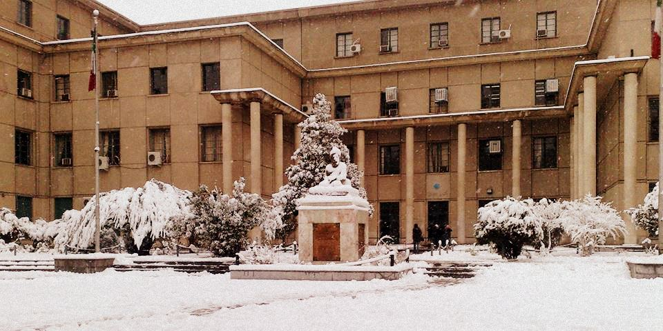 دانشکده ادبیات دانشگاه تهران